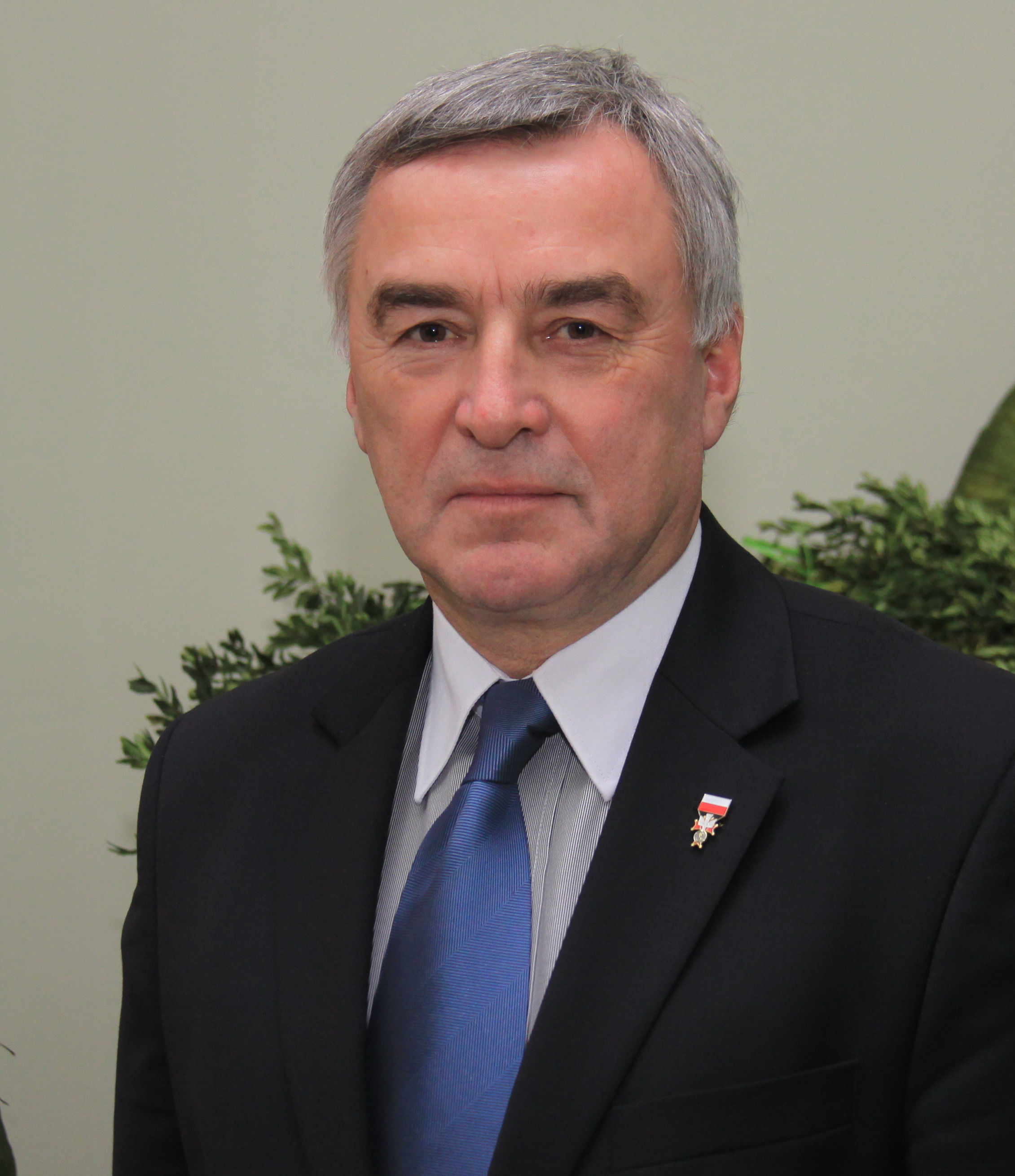 Andrew Bętkowski - politician, samorządowiec, Member of Parliament VI and VII of the term. Meeting PiS with residents, Busko-Zdroj, 20 April 2012